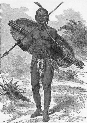 Mtyela Kasanda, better known as Mirambo ("corpses"), was a Nyamwezi warlord from 1860 to 1884.